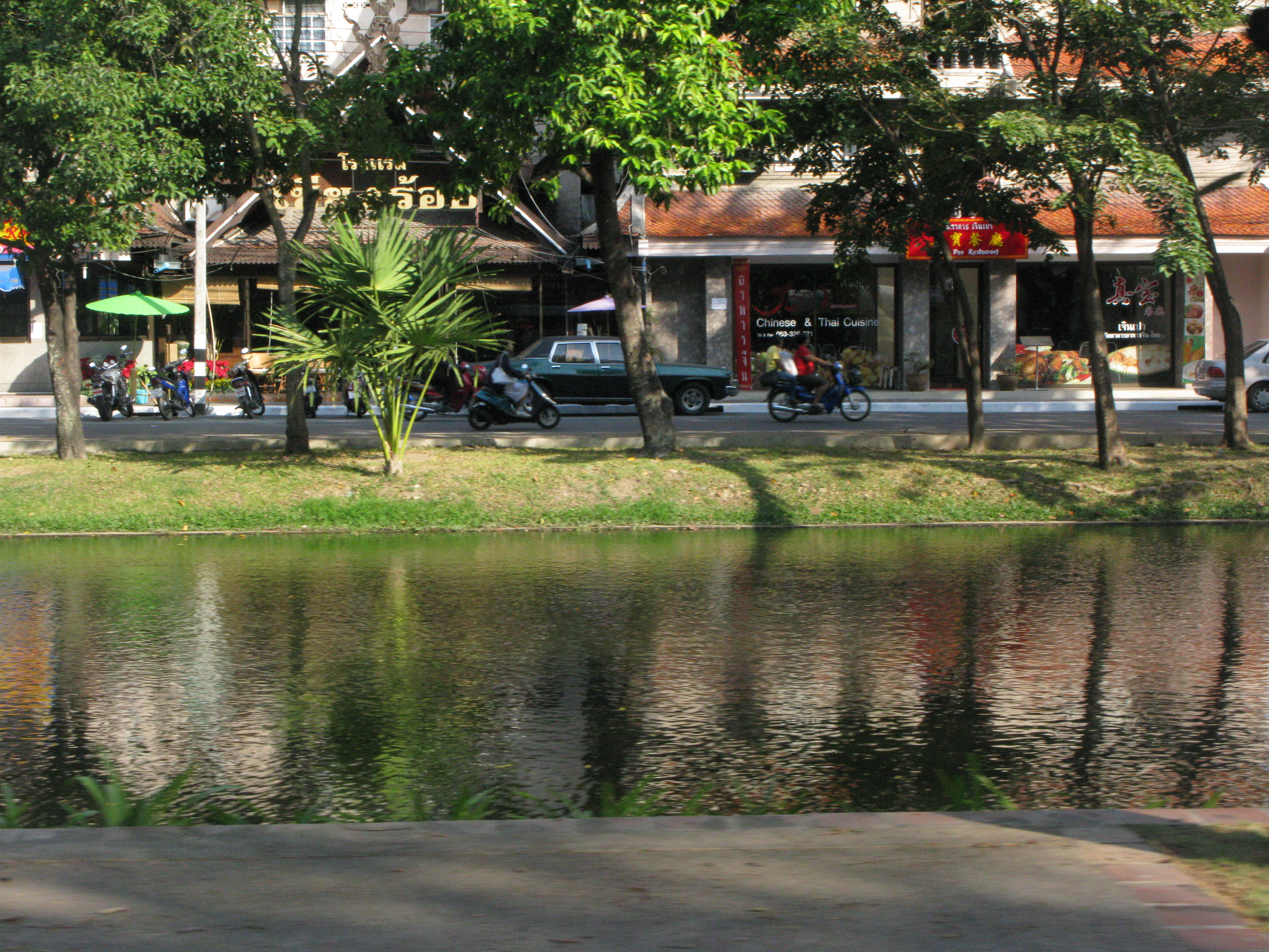 A street in Chiang Mai City